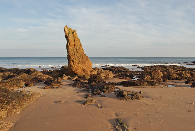 Cullen Beach One of the quartzite stacks known as the Three Kings, seen at low tide on a clear February morning.